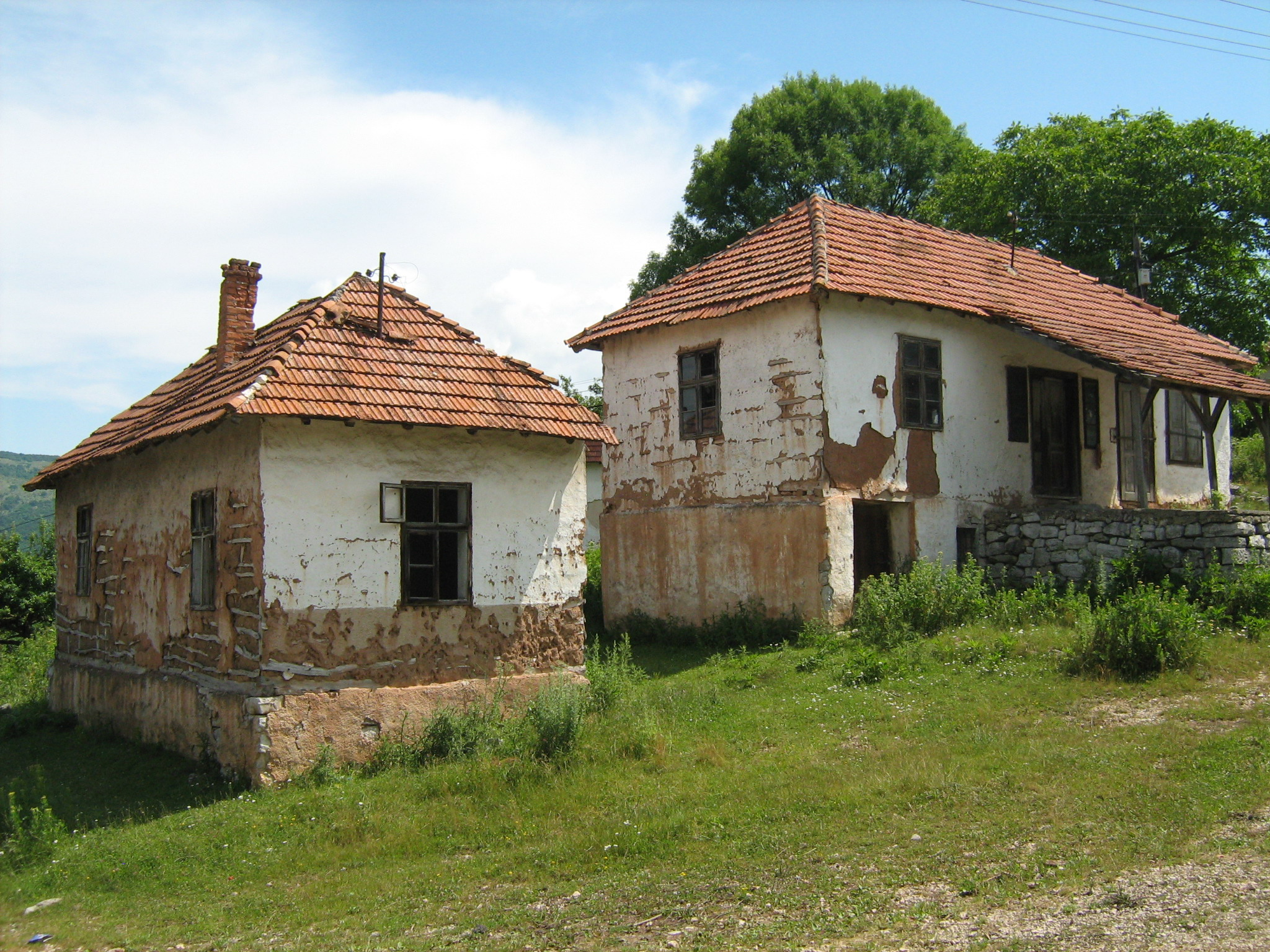 Roofs of Serbia